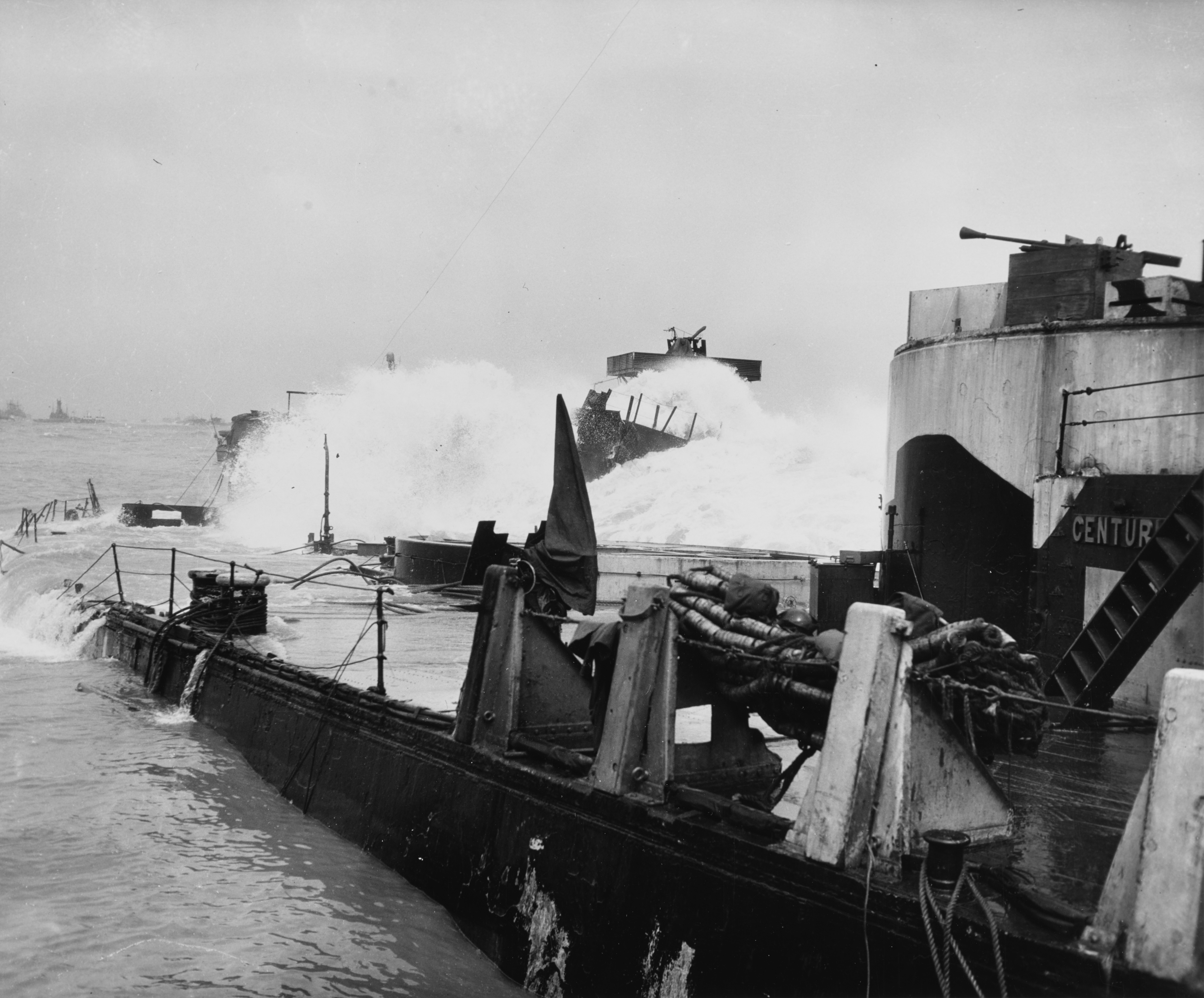 Waves batter the "Mulberry" artificial harbor off "Omaha" Beach, during the great storm of 19-22 June 1944. Photographed from alongside the old British battleship Centurion, which had been sunk as a breakwater and anti-aircraft emplacement.